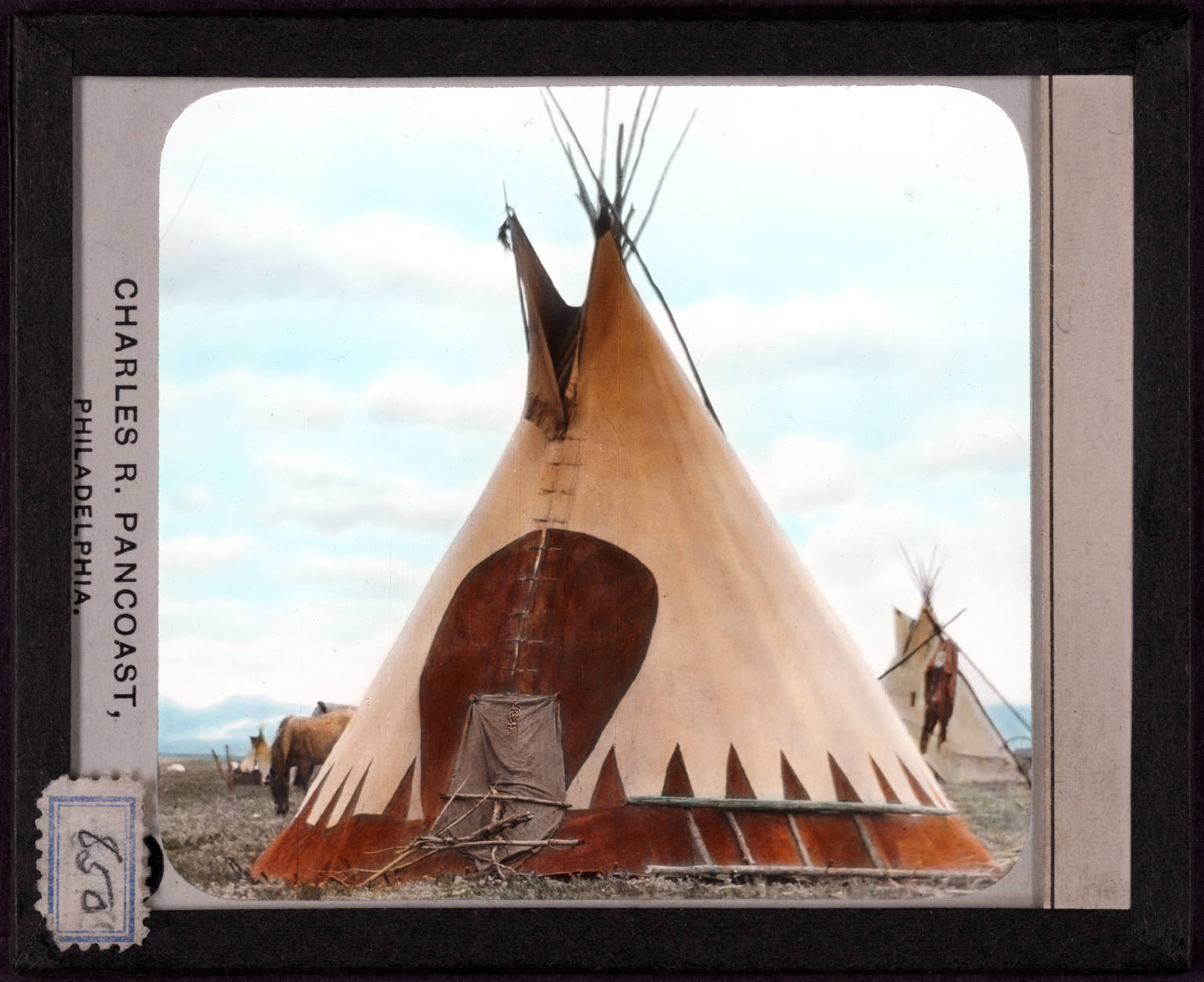 Author/Creator: McClintock, Walter, 1870-1949. Pancoast, Charles R. Date: undated Part of: Walter McClintock papers, 1874-1946. Physical Description: 1 lantern slide hand col. 8 x 10 cm. Folder or box number: Lantern slides box 9 Subjects: Indians of North America. Siksika Indians. Montana. Genre/Form: Lantern slides Cite as: Yale Collection of Western Americana, Beinecke Rare Book and Manuscript Library Repository: Beinecke Rare Book and Manuscript Library, Yale University Bibliographic Record Number: 2008190 Call Number: WA MSS S-1175 View our Record: Permalink